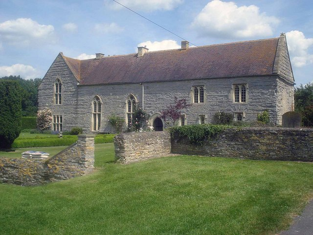 Ashleworth Court A 1460 manor house, situated next to the church.